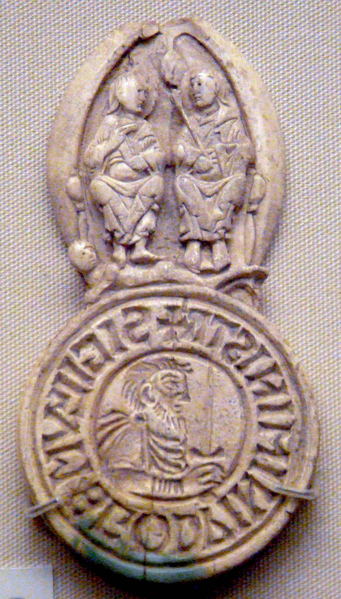 Early 11th century seal belonging to an unknown thane named Godwin. More information here